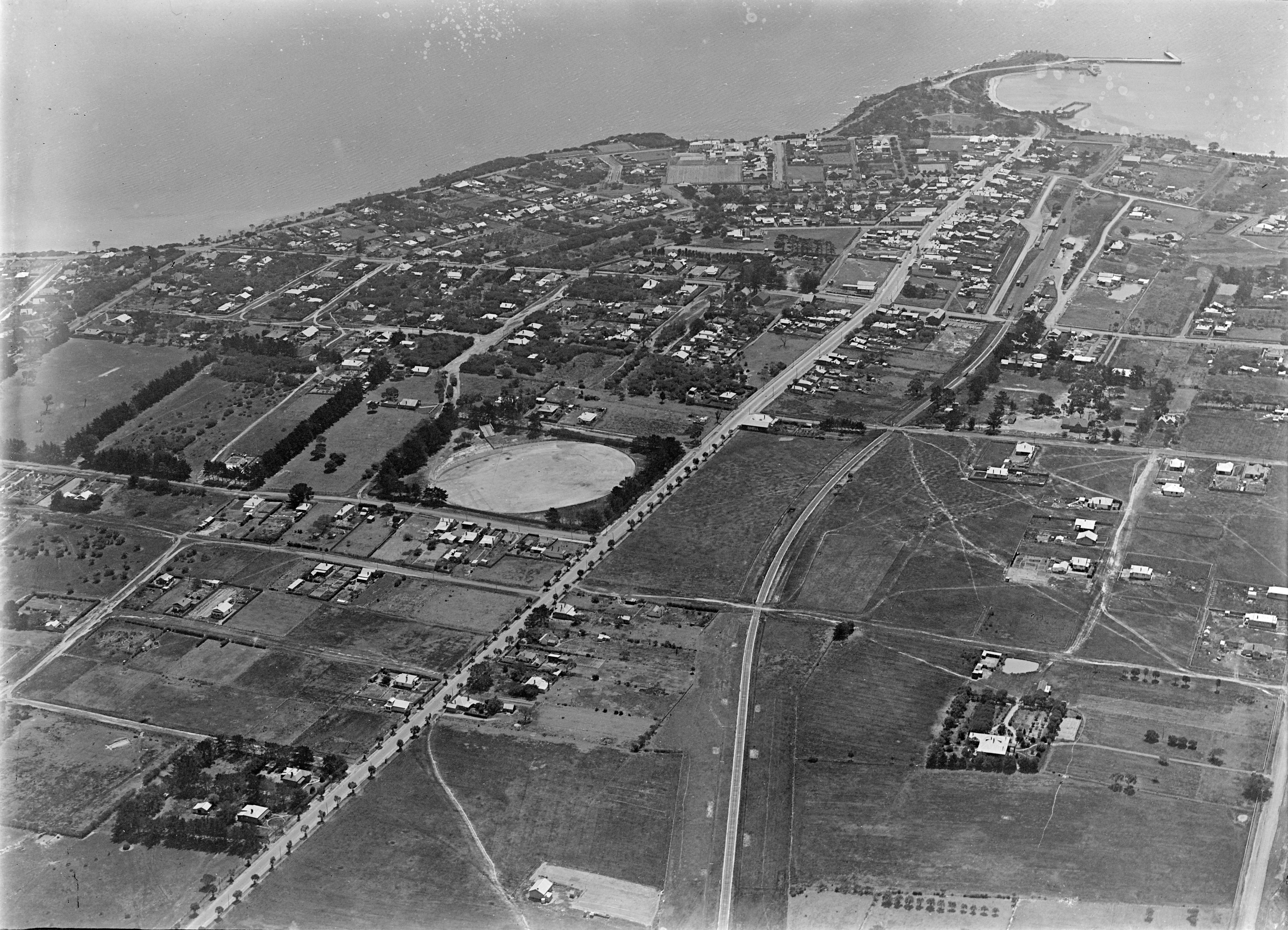 Capturefile: D:\glass neg raws\Airspy series\box 58\ai1634.tif CaptureSN: CC001681.055194